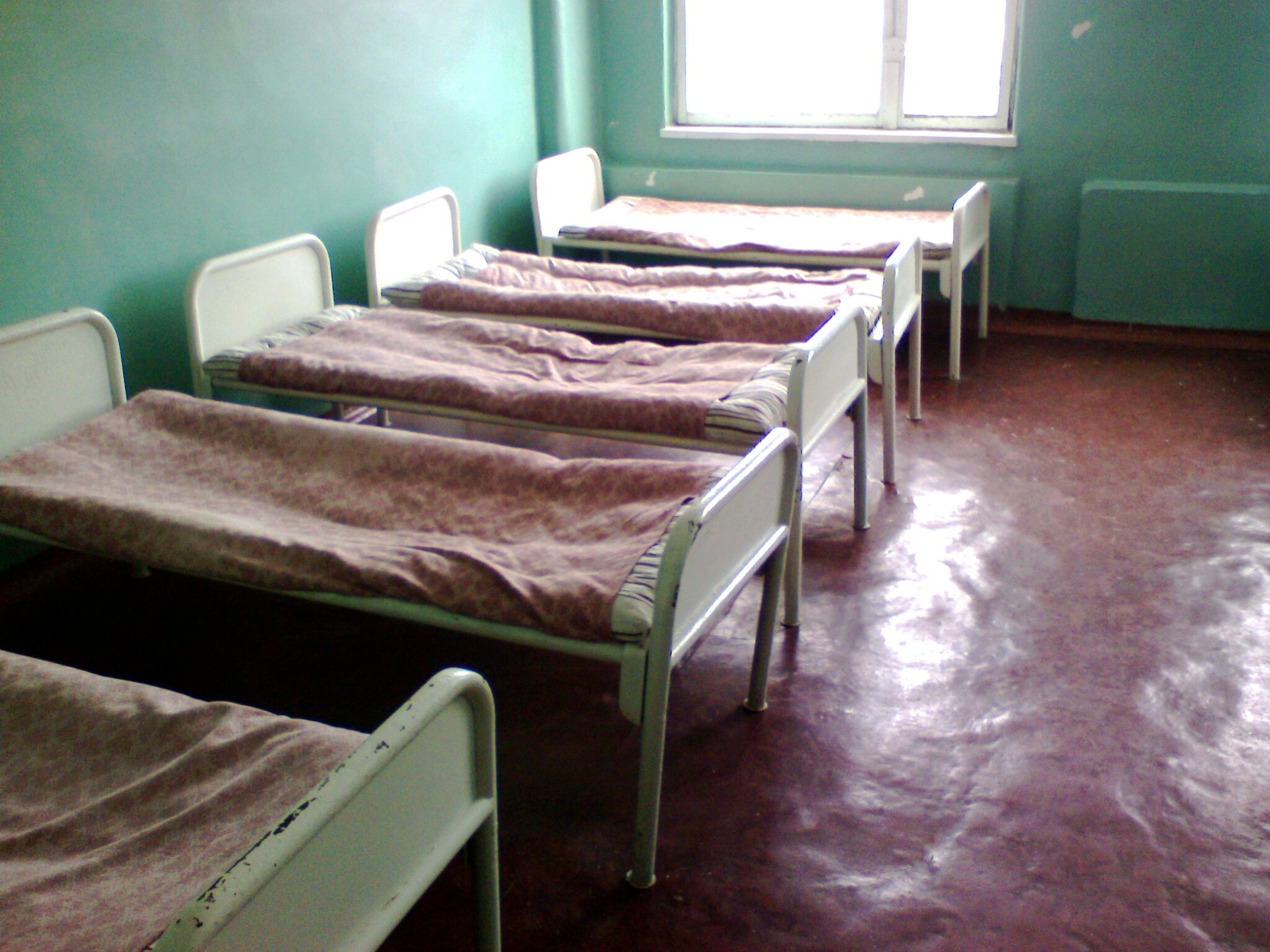 Hospital beds in the empty section of a hospital in Kharkiv, Ukraine.